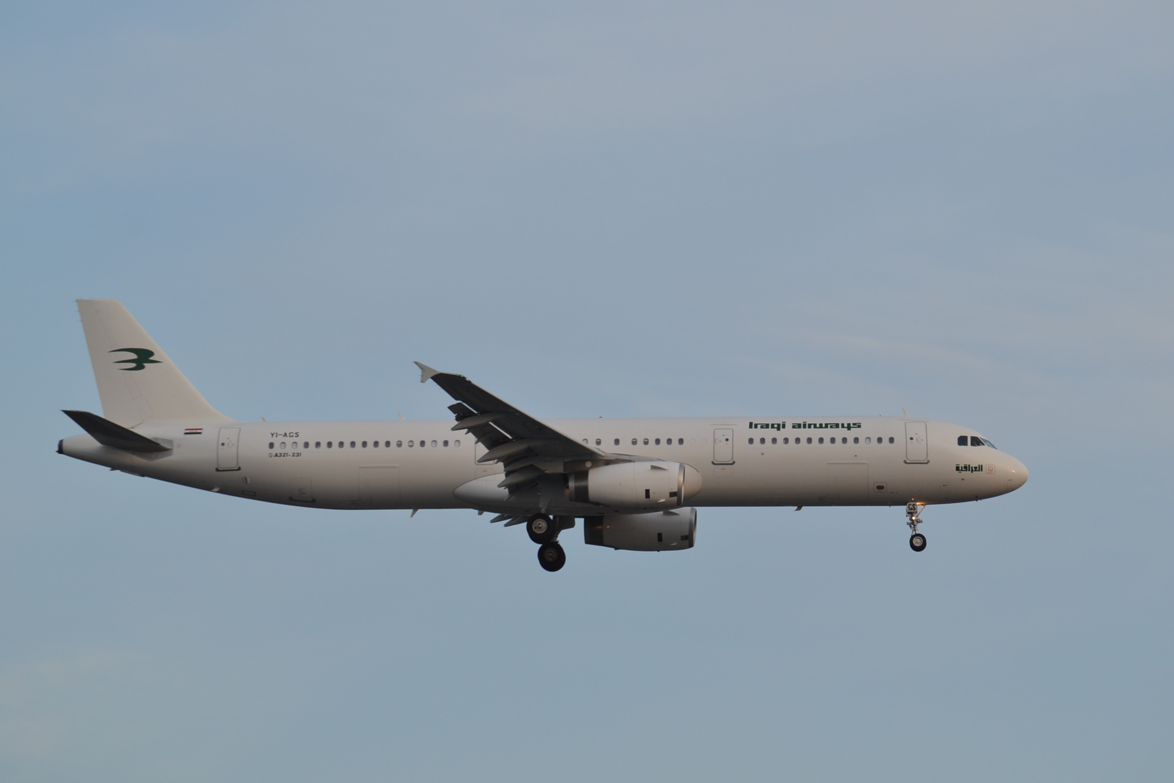 Airbus A321 of Iraqi Airways landing at London Gatwick-GTW,08/08/13.